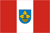 Flag of Lysiansky Raion.